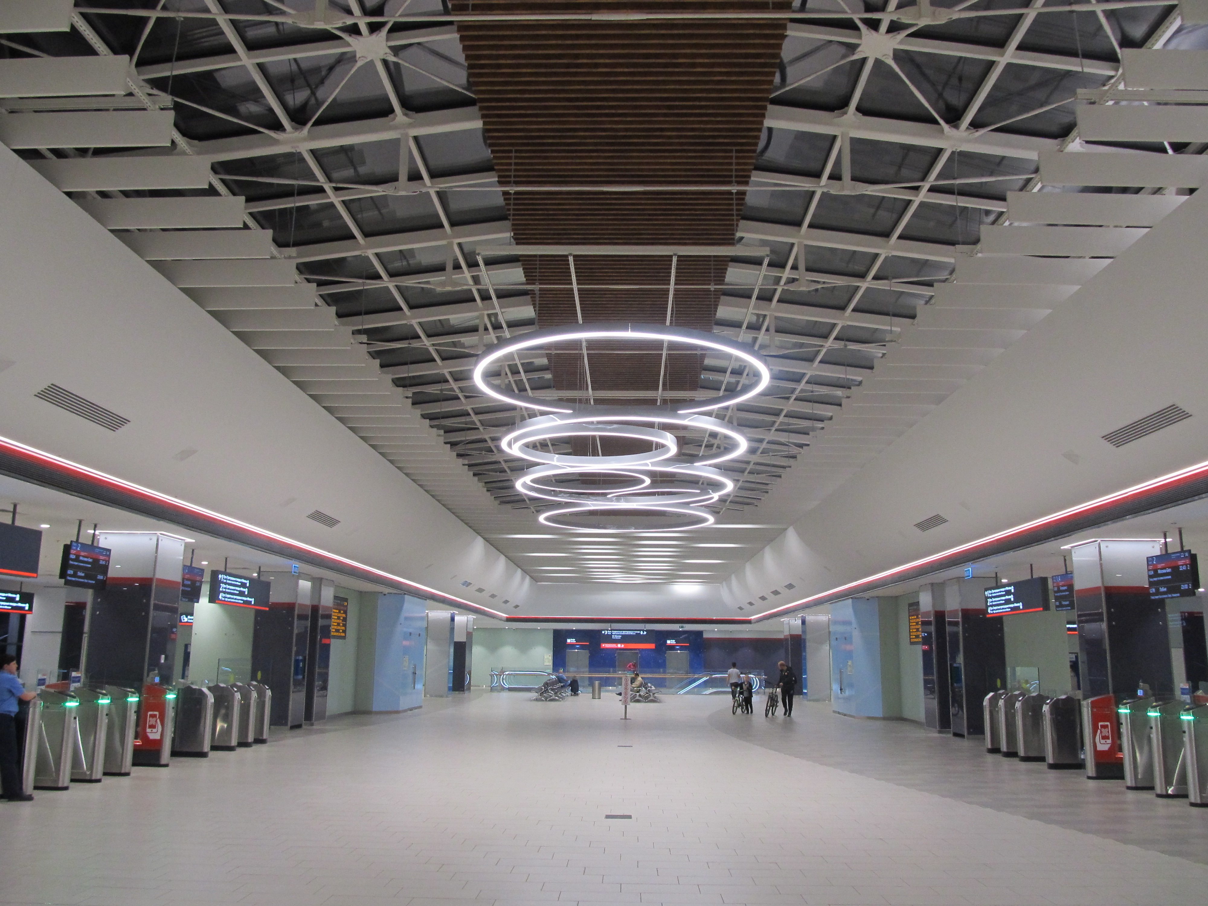 Long gallery of Skolkovo Innovation Centre railway platform (to Trekhgorka and Kutuzovskii microdistricts of Odintsovo)